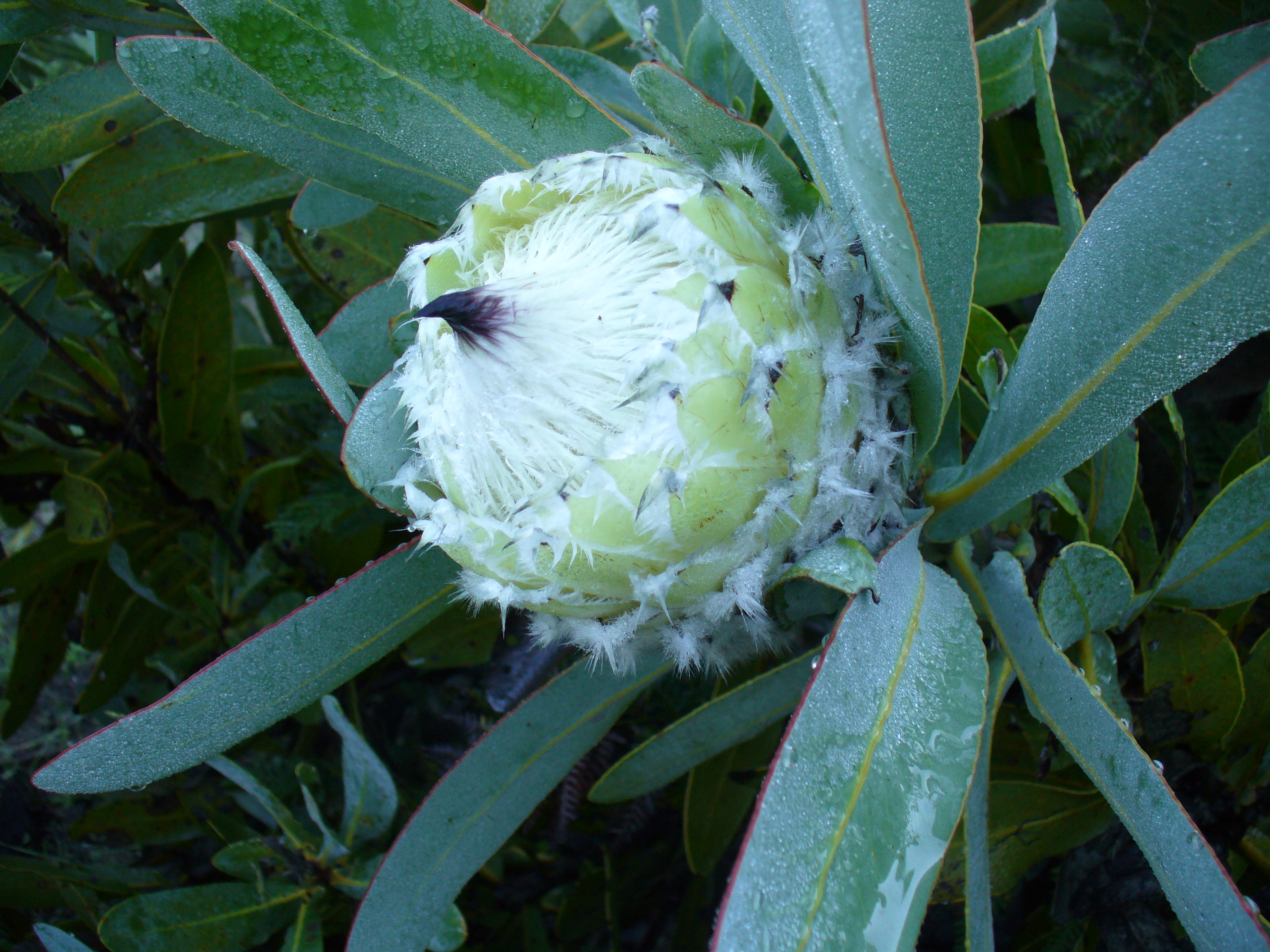 Queen Protea (Link) Caledon Western Cape.